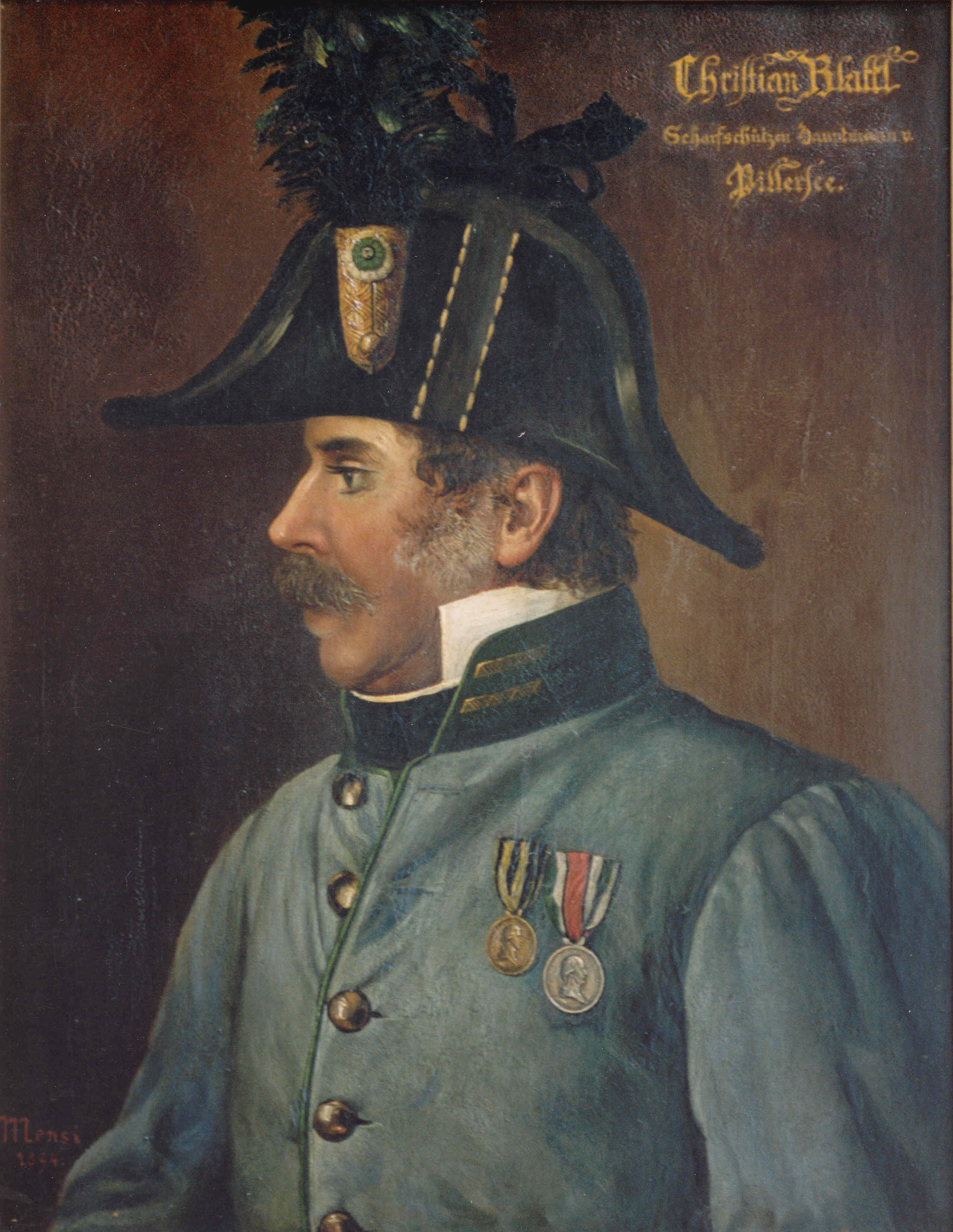 Christian Blattl I.